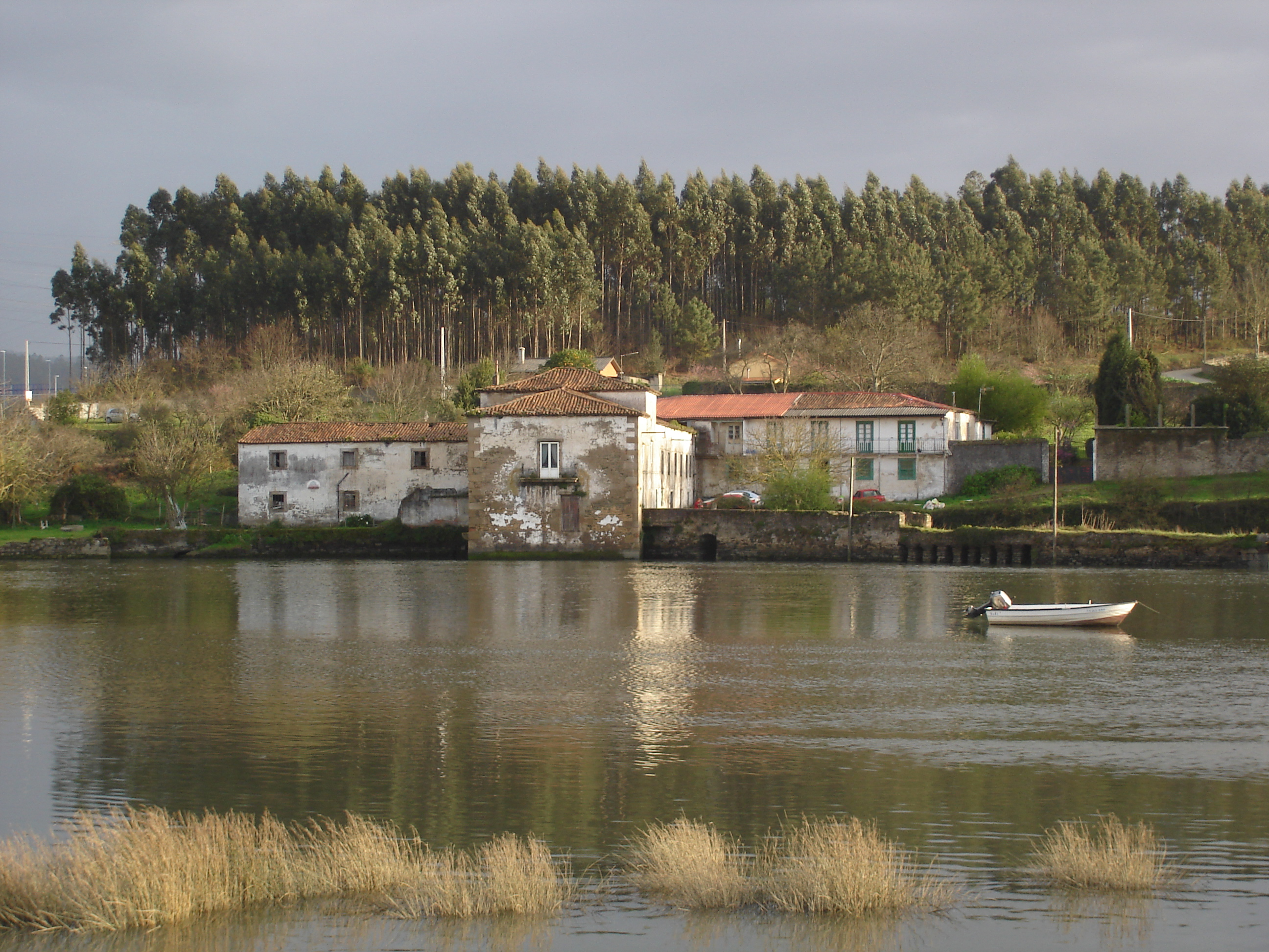 Tide mill of As Aceas, Narón, Galicia (Spain).